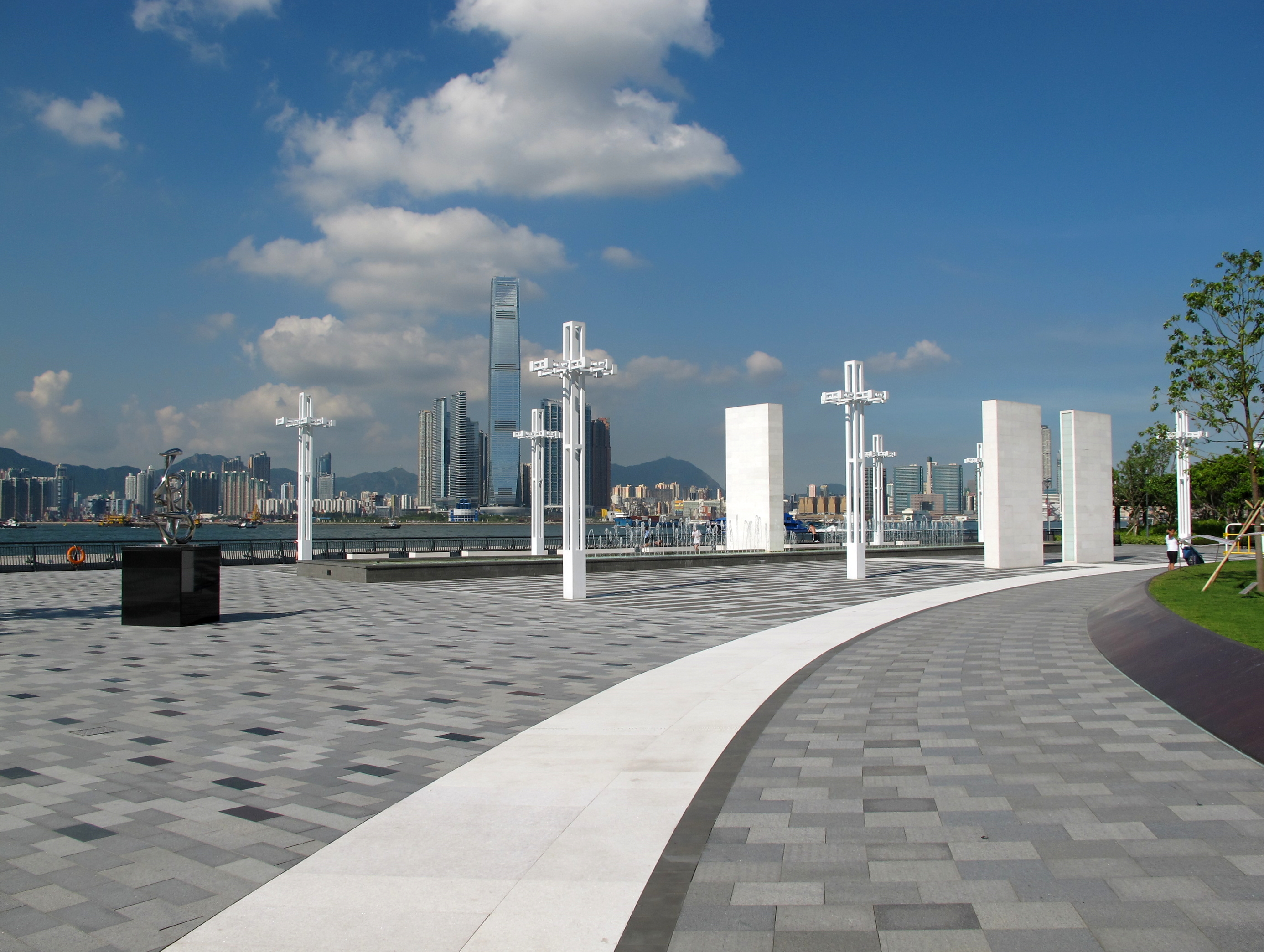 Sun Yat Sen Memorial Park Reflecting Pond Plaza